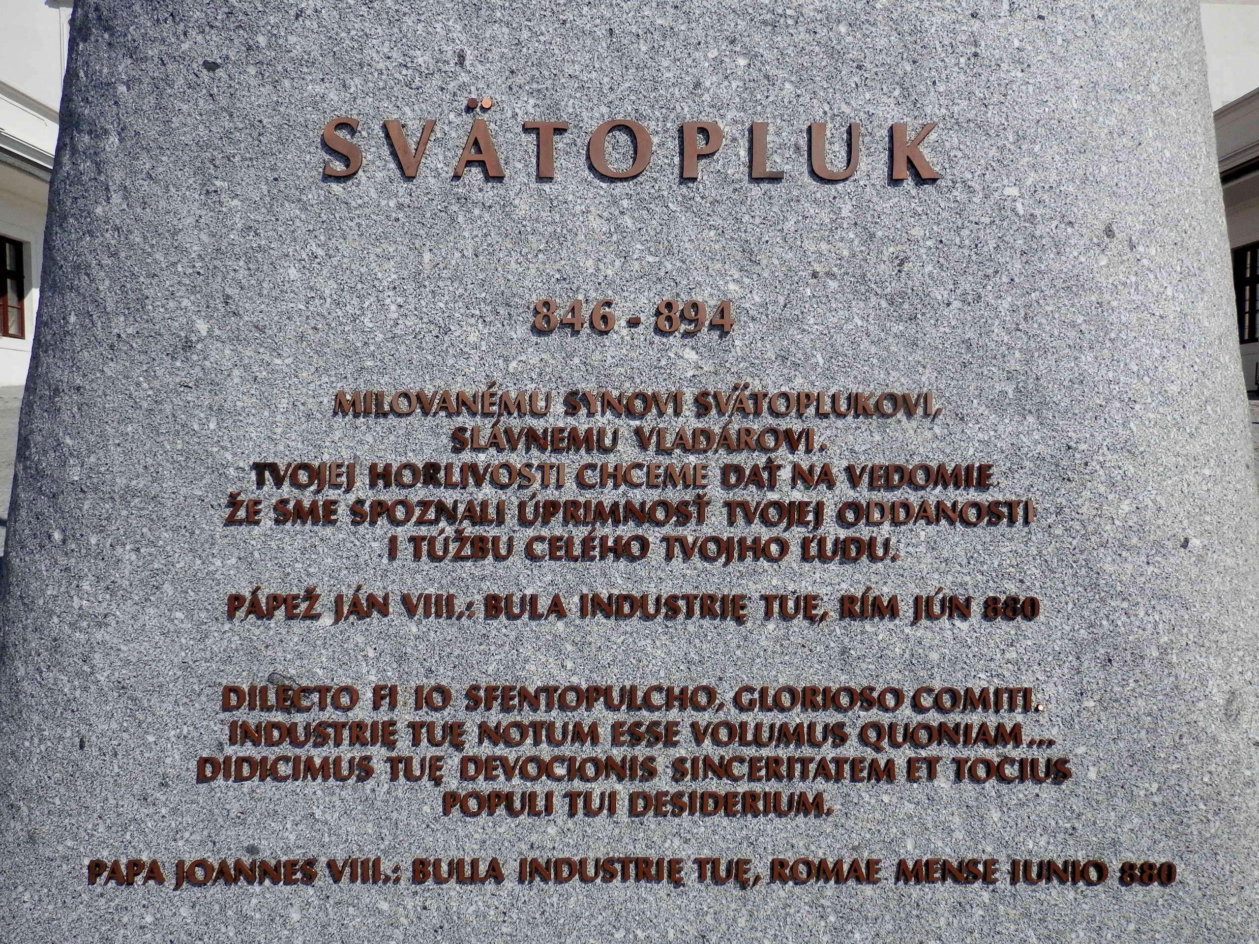 Inscription on the granite pedestal of the monument of Svatopluk I. on the Bratislava castle